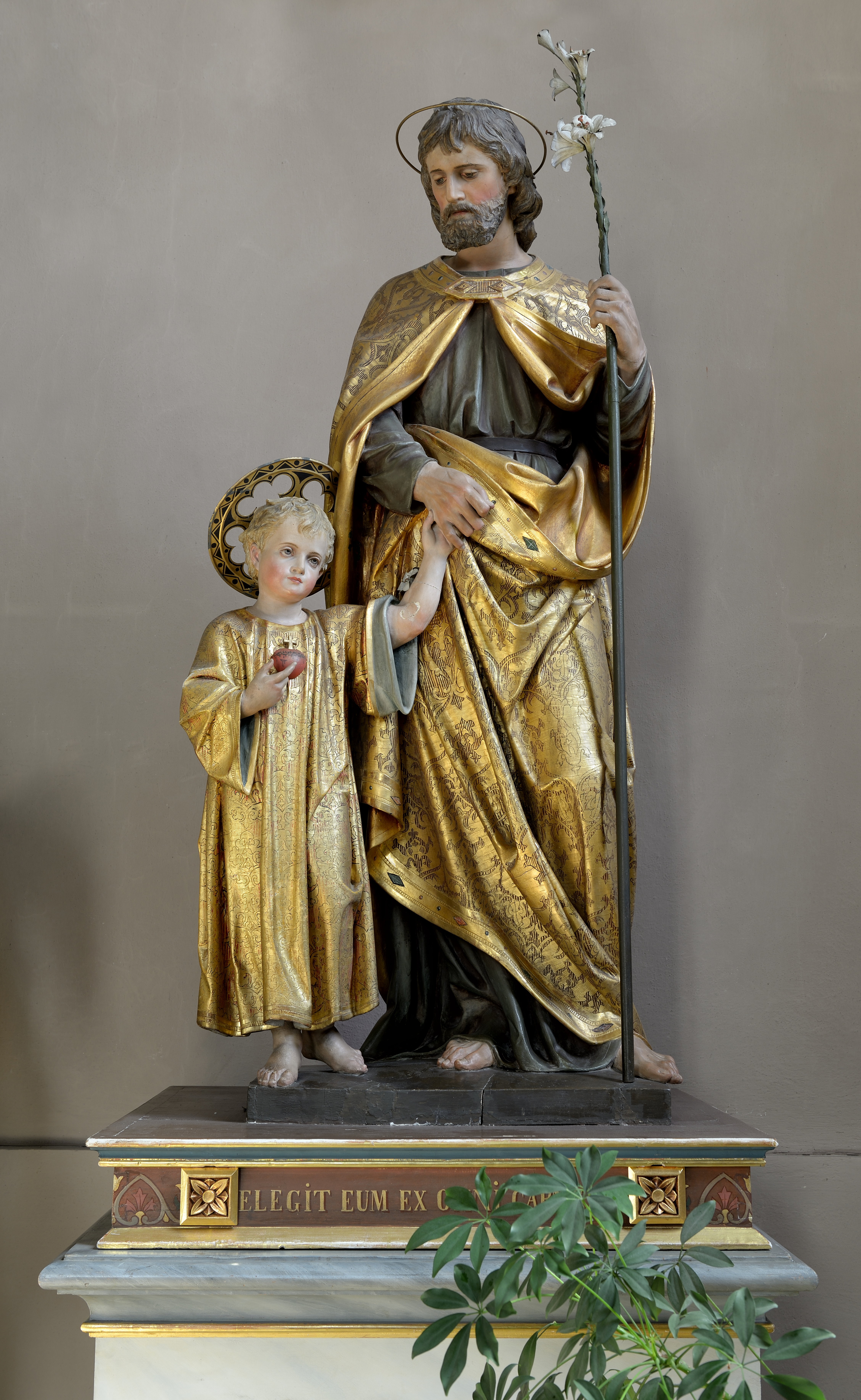 Saint Joseph and Jesus as a child, wooden statue by Ferdinand Demetz ca 1905 St. Ulrich in Gröden - Ortisei Val Gardena Italy.